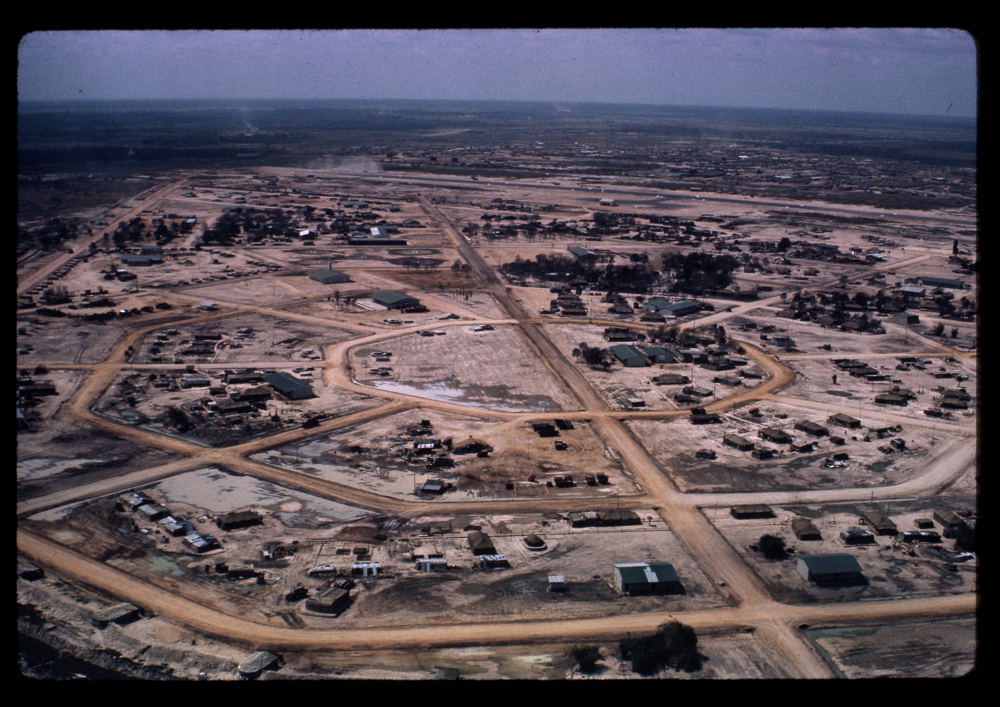 PHILCAG cantonment located on the southern side of the Tay Ninh Combat Base